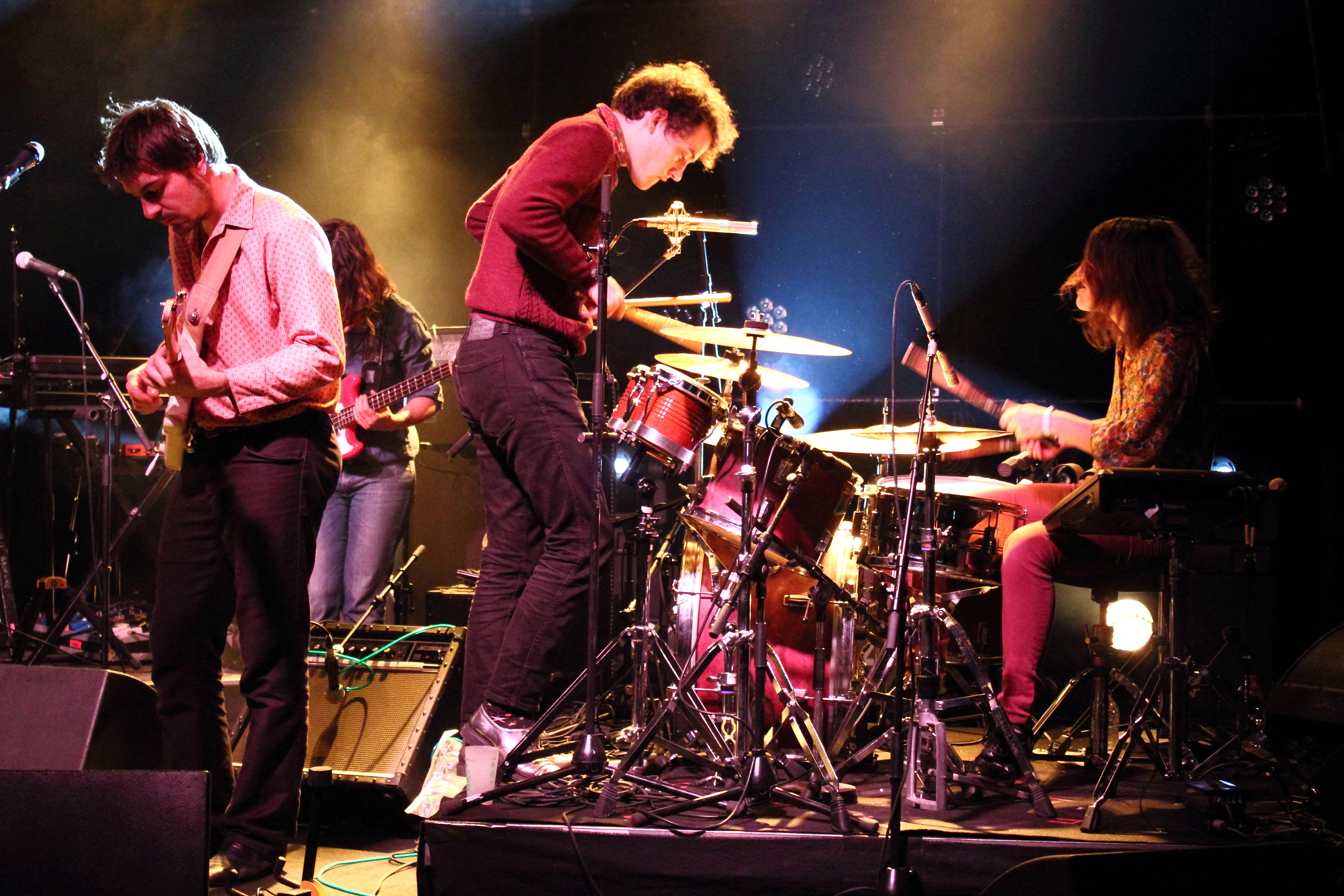 Moodoïd performing in 2014 Moodoïd et Aquaserge sur scène au Confort Moderne - Poitiers, novembre 2014. Flickr Tags: Confort Moderne Poitiers Musique Music Scène Stage Live Concert Show Pop Musicien Musician Moodoïd. from Flickr album "Le Confort Moderne" by Xi WEG References Moodoïd / Aquaserge - Vendredi 7 Novembre 2014. Le confort moderne / Association L'Oreille est Hardie."Moodoïd / Pop / France / Site Web / Page Facebook / Moodoid - Je sais qui tu es","Aquaserge / Pop psyché / France / Site Web / Page Facebook / Aquaserge - A l’amitié (recorded live at condorcet studio)" Aquaserge (Musician/Band). facebook. Moodoïd (Musician/Band). facebook.